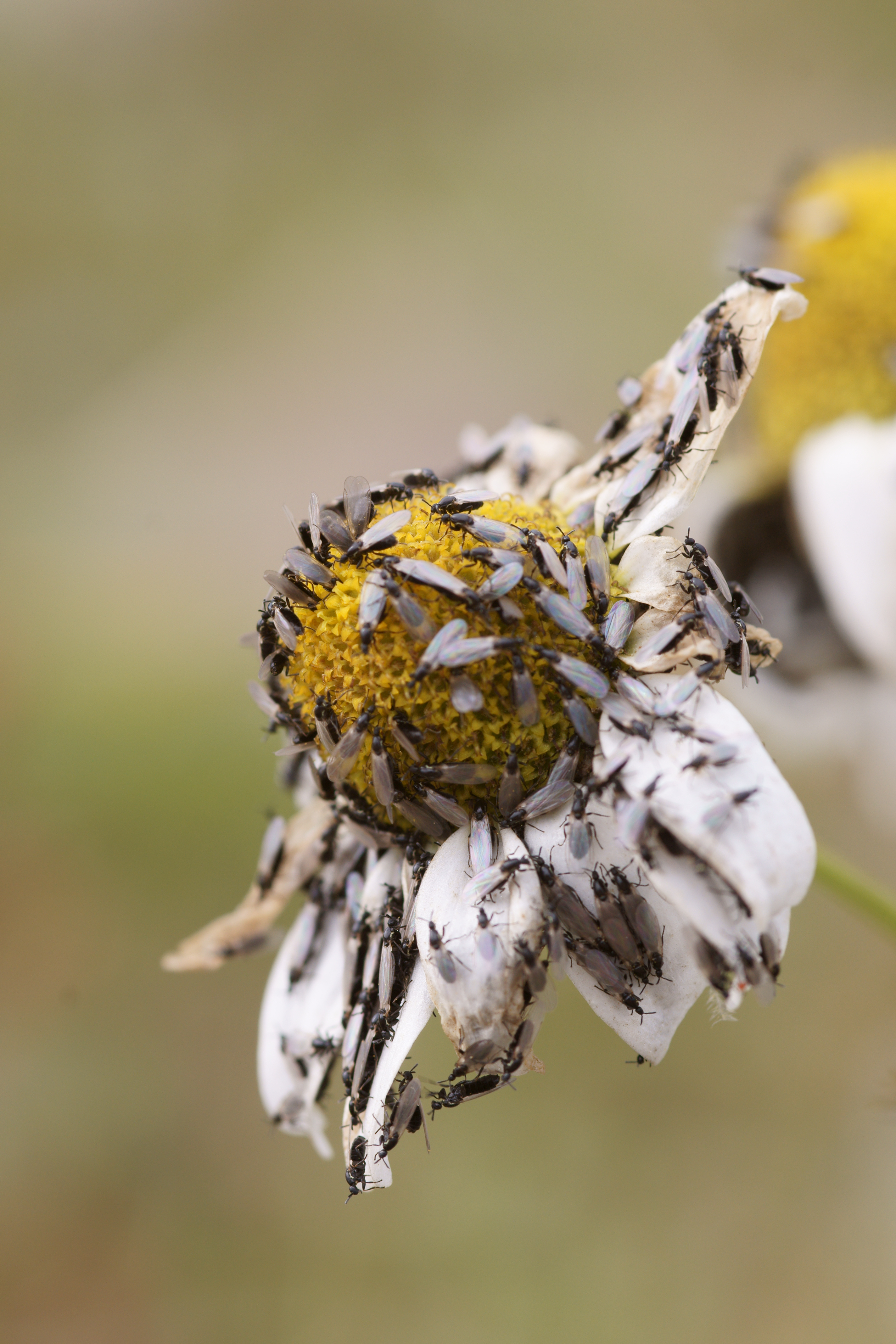 Reichertella geniculata on oxeye daisy (Leucanthemum vulgare).